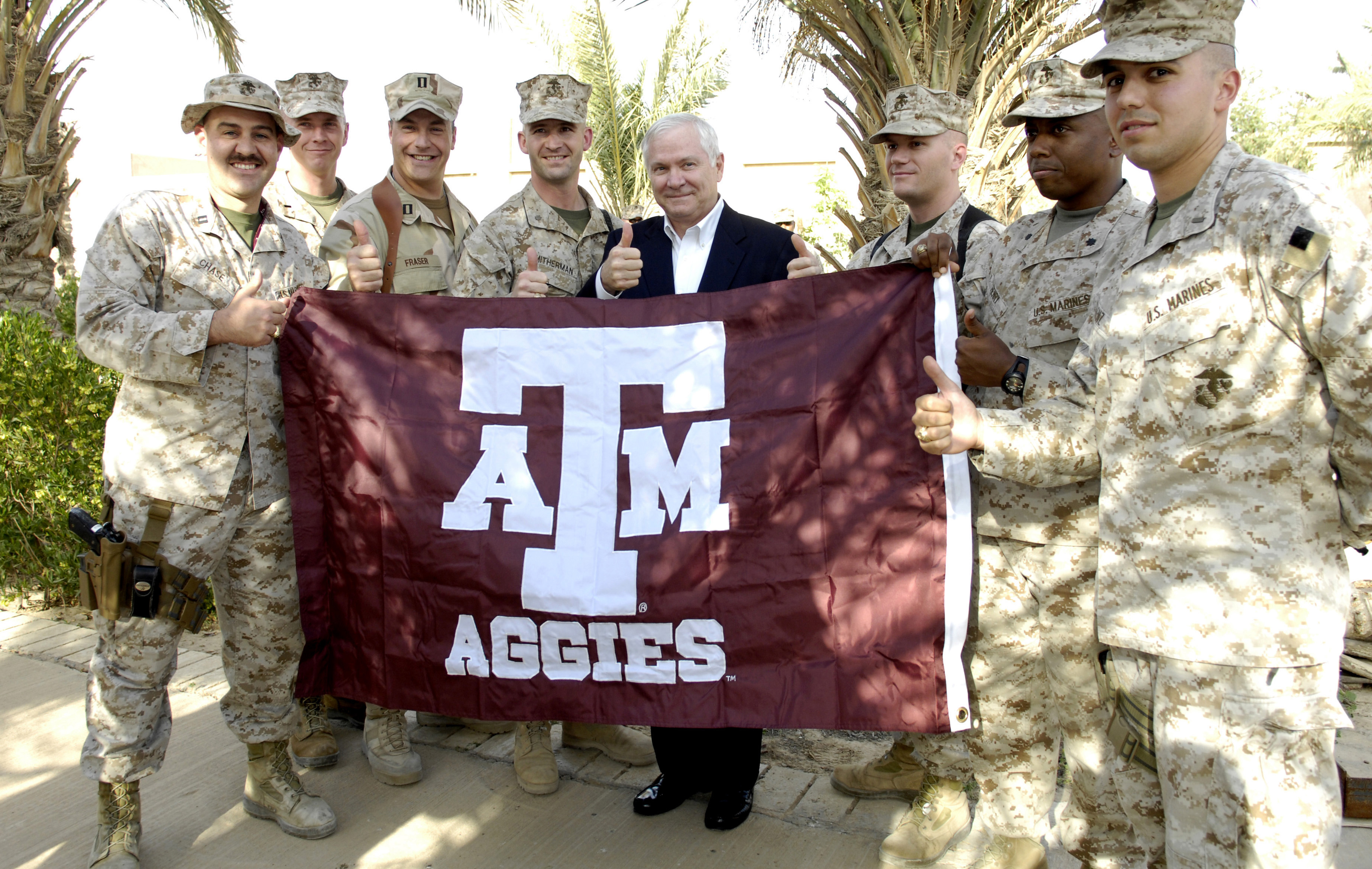 Secretary of Defense Robert Gates meets with graduates of Texas A&M University at Camp Fallujah, Iraq, April 19, 2007. DoD photo by Cherie A. Thurlby. (Released) (Released to Public)